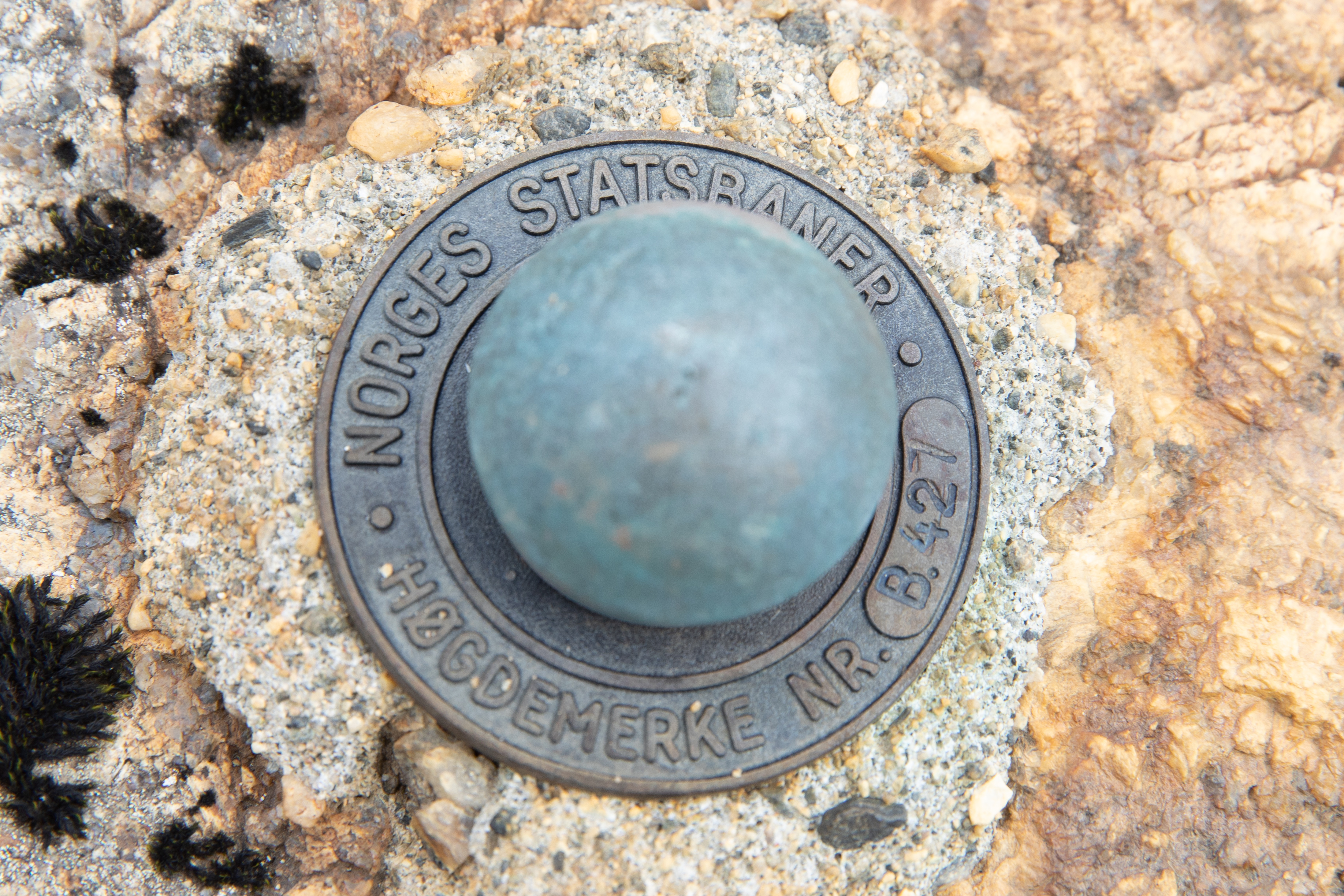 From the Navvy Road (local "rallarvegen") along the Bergen Railway.